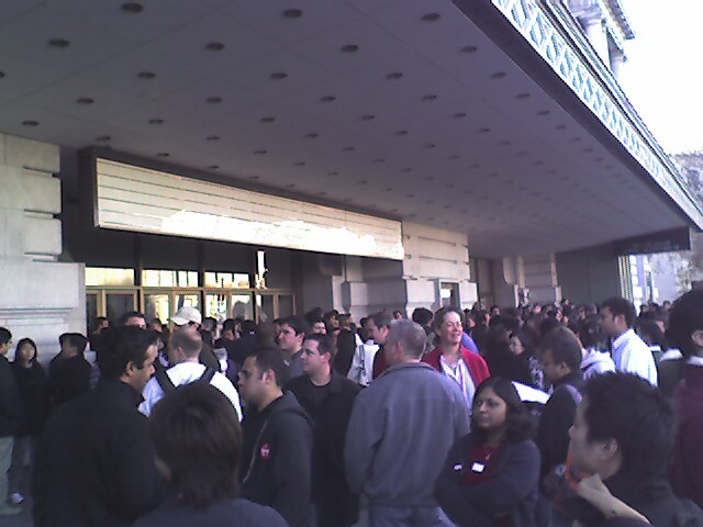 A group of CFA candidates waiting to enter the testing hall, San Francisco, Dec 2, 2006.